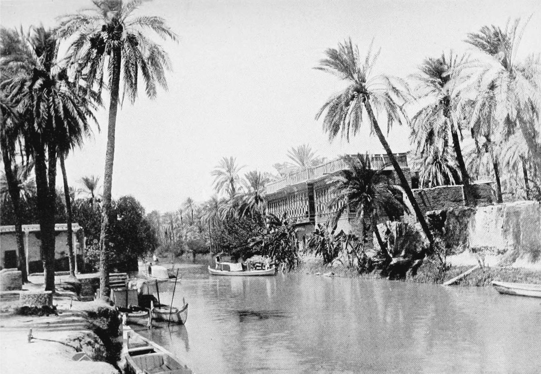 A creek running through Basra, with buildings, docks and palm trees lining either side of the creek